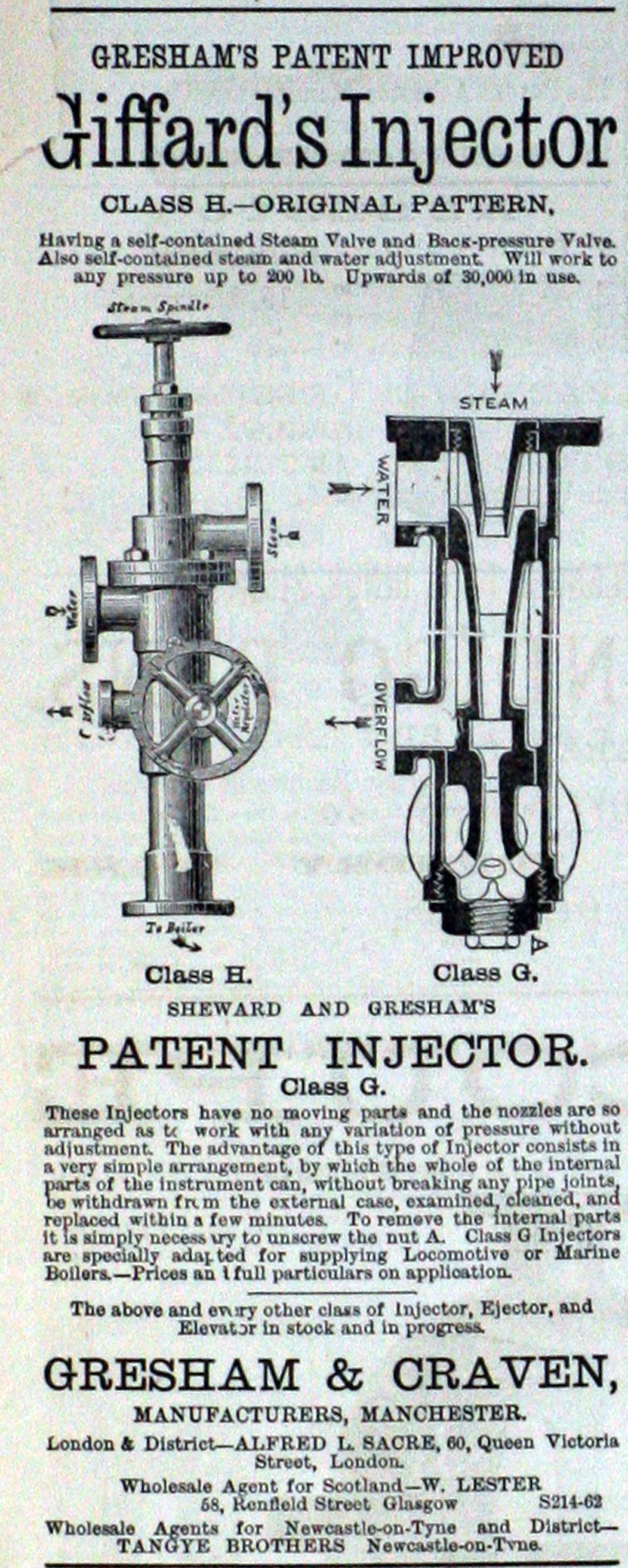 Gresham & Craven - Giffard's Injector - sectional view